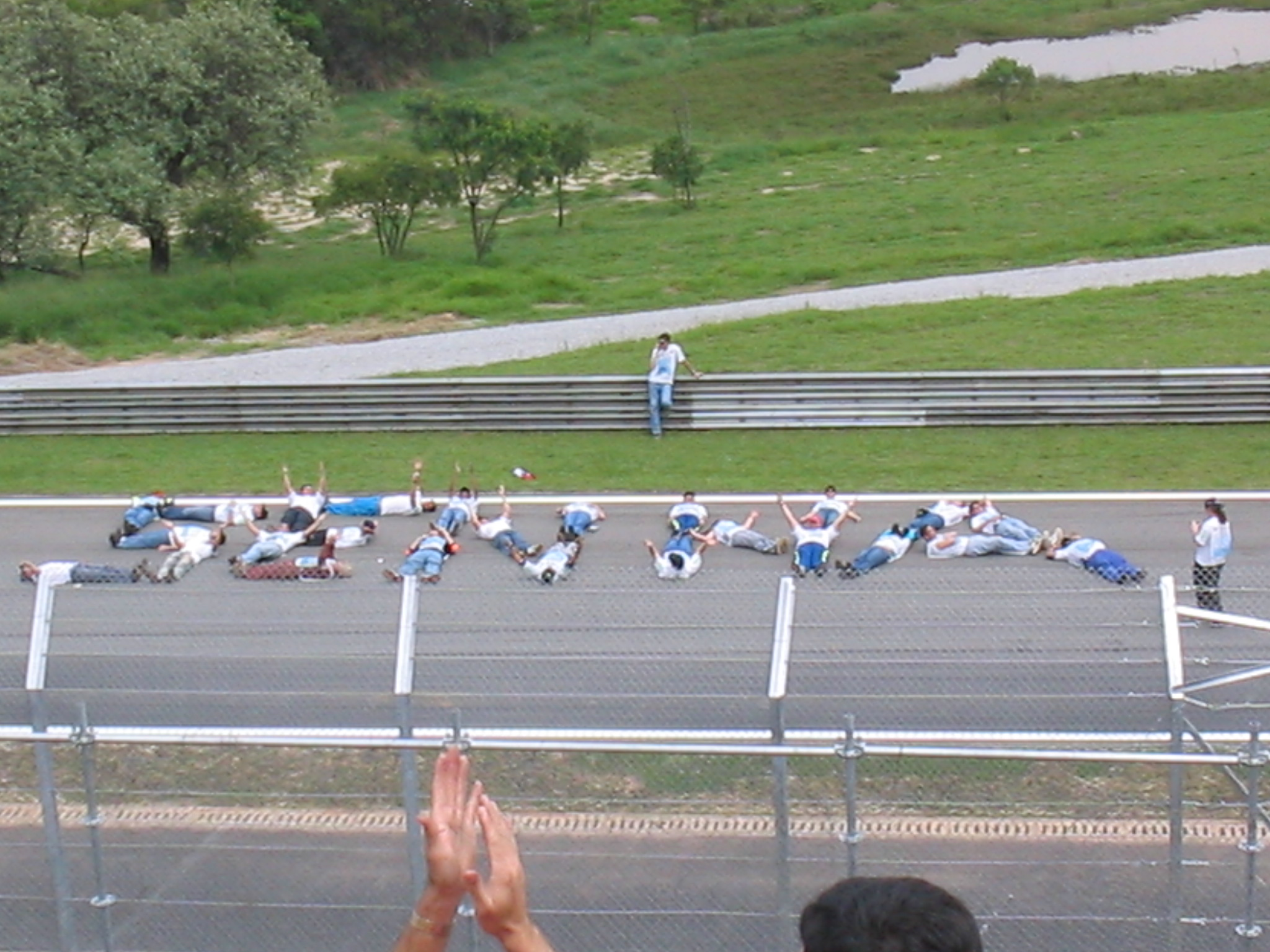 persons form the word "Senna" (Ayrton) with their bodies.